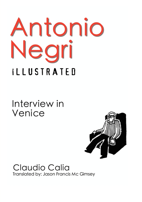 Cover art from "Antonio Negri Illustrated, Interview in Venice" (2011, Red Quill Books) by Caludio Calia